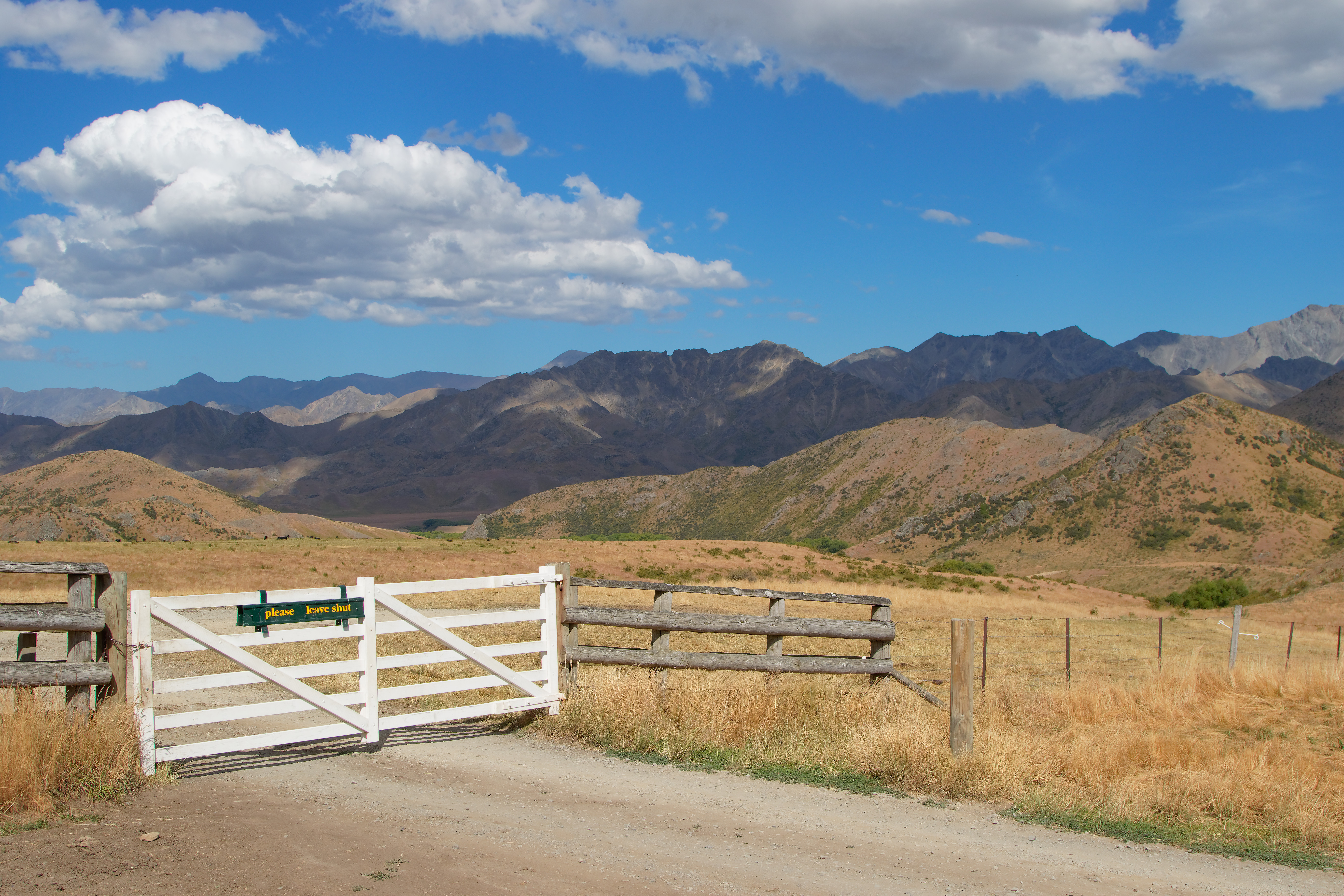 Molesworth station at -42.097089, 173.231521 041A5707 D